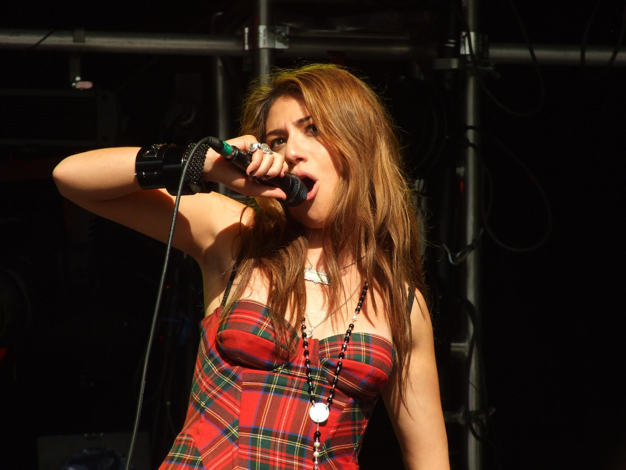 Australian musician Gabriella Cilmi. Taken with a Fujifilm FinePix S6500fd.